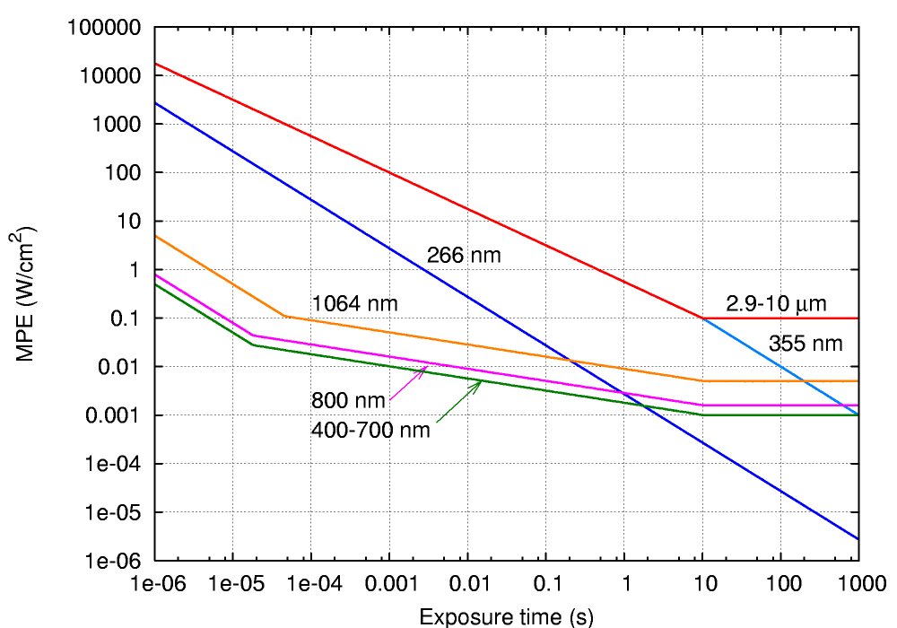 Created by Han-Kwang based on IEC 60825 formulas. Power density versus exposure time. See also File:IEC60825 MPE J s.png and File:IEC60825 MPE J nm.png. Plot is based on Table A.1 "Maximum permissible exposure limit for C6 equals 1 at the cornea" in IEC 60825-1, Edition 2.0 2007-03.